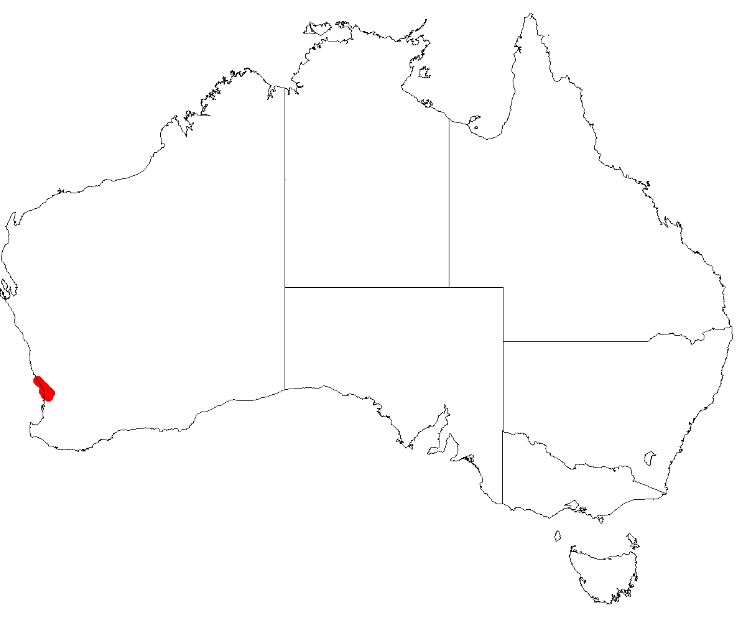 Conostylis bracteata occurrence data from AVH on 12 May 2017